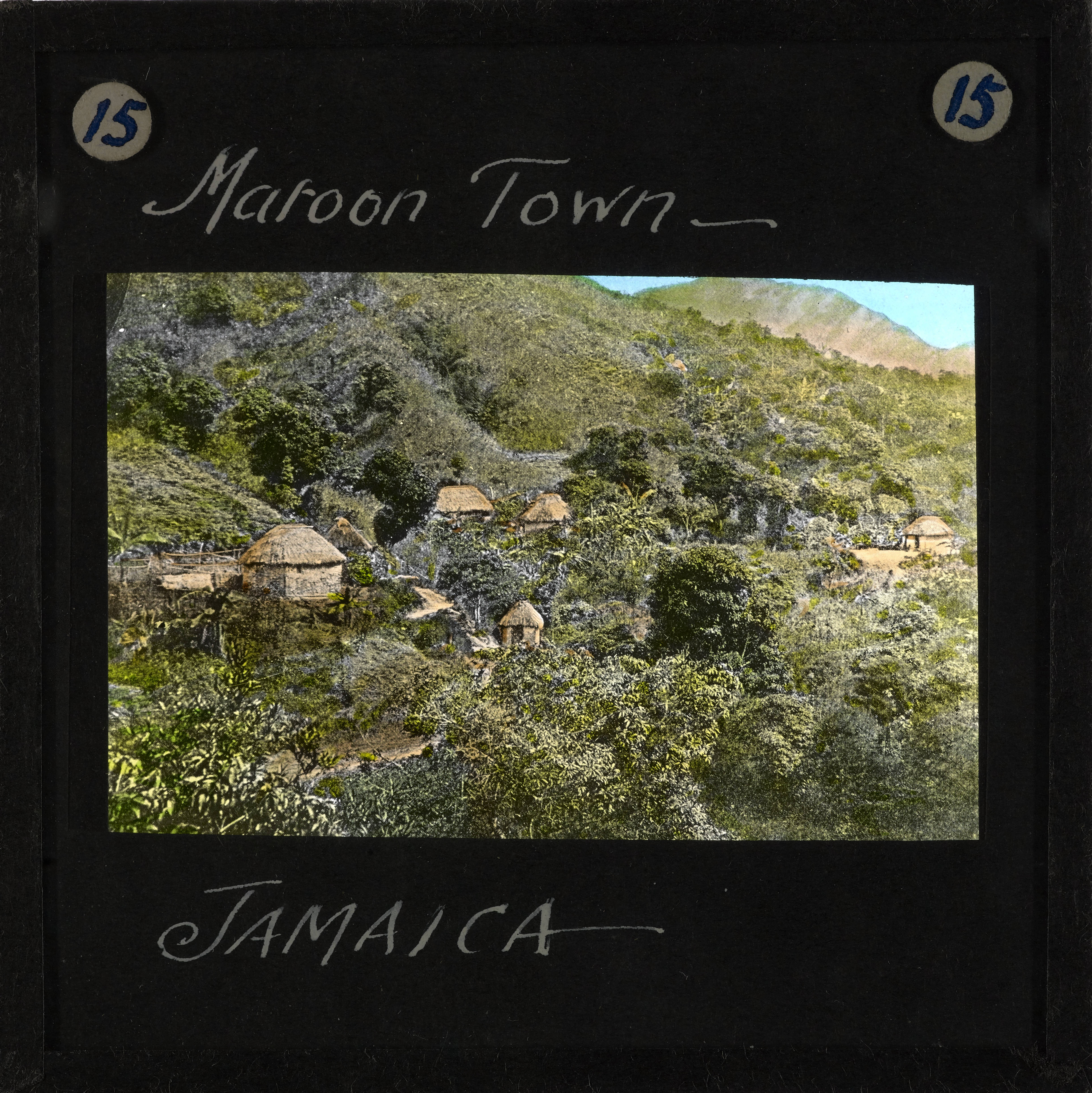 Accompong, Jamaica, early 20th century Photograph of the town of Accompong in Jamaica. The image shows a cluster of thatched houses scattered on a hillside.; Accompong is a historical Maroon village, located in the hills of St. Elizabeth Parish in Jamaica. The Jamaican Maroons are descended from runaway slaves who fought the British during the 18th century. Accompong town became a mission station of the church of Scotland with a church and a school. Photographer: Unknown Filename: imp-cswc-GB-237-CSWC47-LS12-015.tif Coverage date: after 1900 Part of collection: International Mission Photography Archive, ca.1860-ca.1960 Geographic subject (region): Accompong Type: images Part of subcollection: Photographs from the Centre for the Study of World Christianity, University of Edinburgh, U.K., ca.1900-ca.1940s Repository name: Centre for the Study of World Christianity Archival file: impaunpub_Volume7/1348.url Repository address: The University of Edinburgh School of Divinity, New College, Mound Place, Edinburgh EH1 2LX, United Kingdom Geographic subject (country): Jamaica Format (aacr2): 1 lantern slide : 8 x 8 cm. Geographic subject (continent): North and Central America Rights: Contact the repository for details. Part of series: The Jamaican Church in the Bush LS12 Repository Subject (lcsh Keyword): Human settlements; Dwellings Date created: after 1900 Publisher (of the digital version): University of Southern California. Libraries Subject (aat genre): landscapes Format (aat): lantern slides Legacy record ID: impa-m68285 Access conditions: File: GB 237 CSWC47/LS12/15